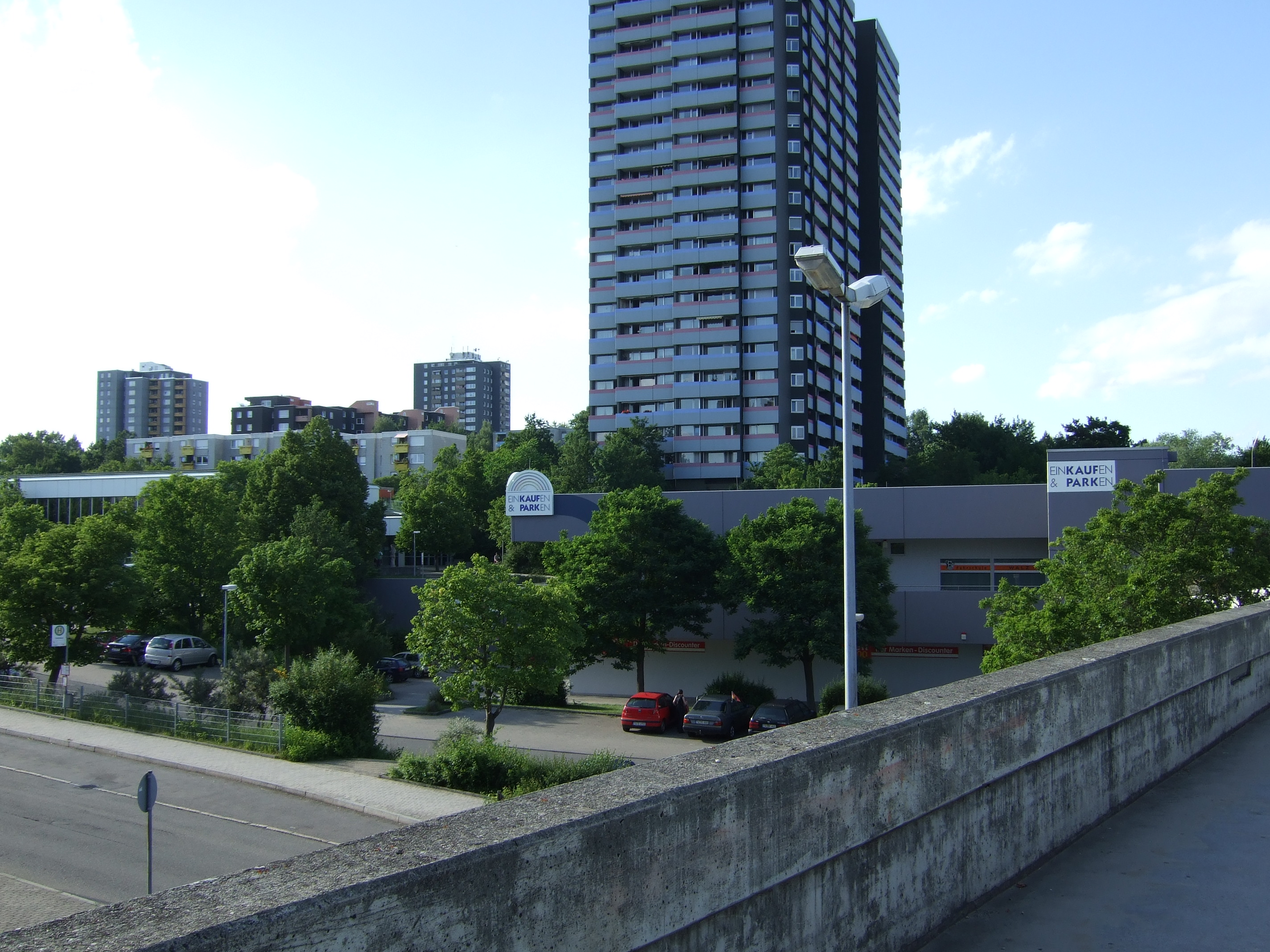 WHO Tübingen shopping mall